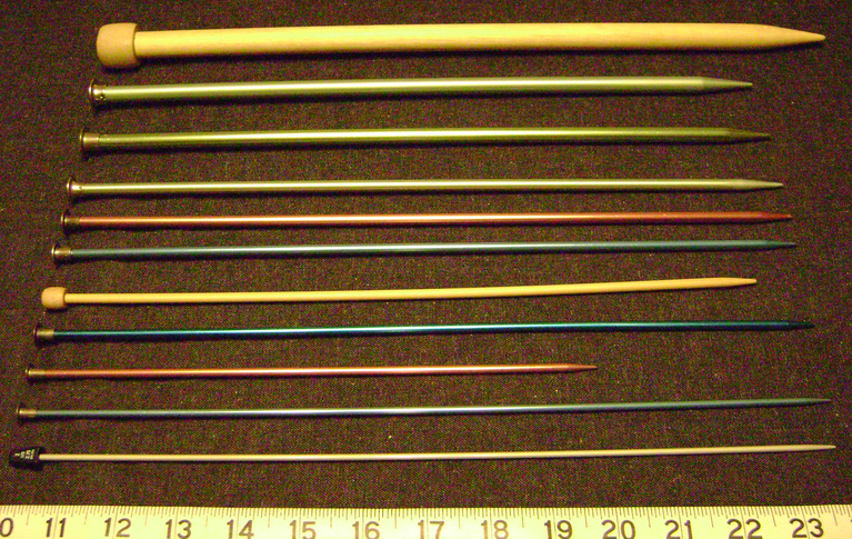 Straight knitting needles of US sizes 2, 4, 5, 6, 7, 8, 9, 10, 11, 13 and 15.